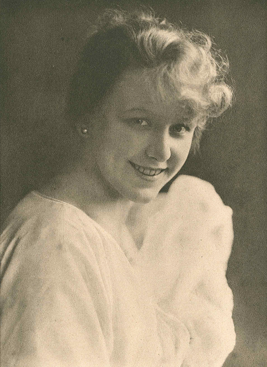 Renée Björling (1898-1975), Swedish actress.